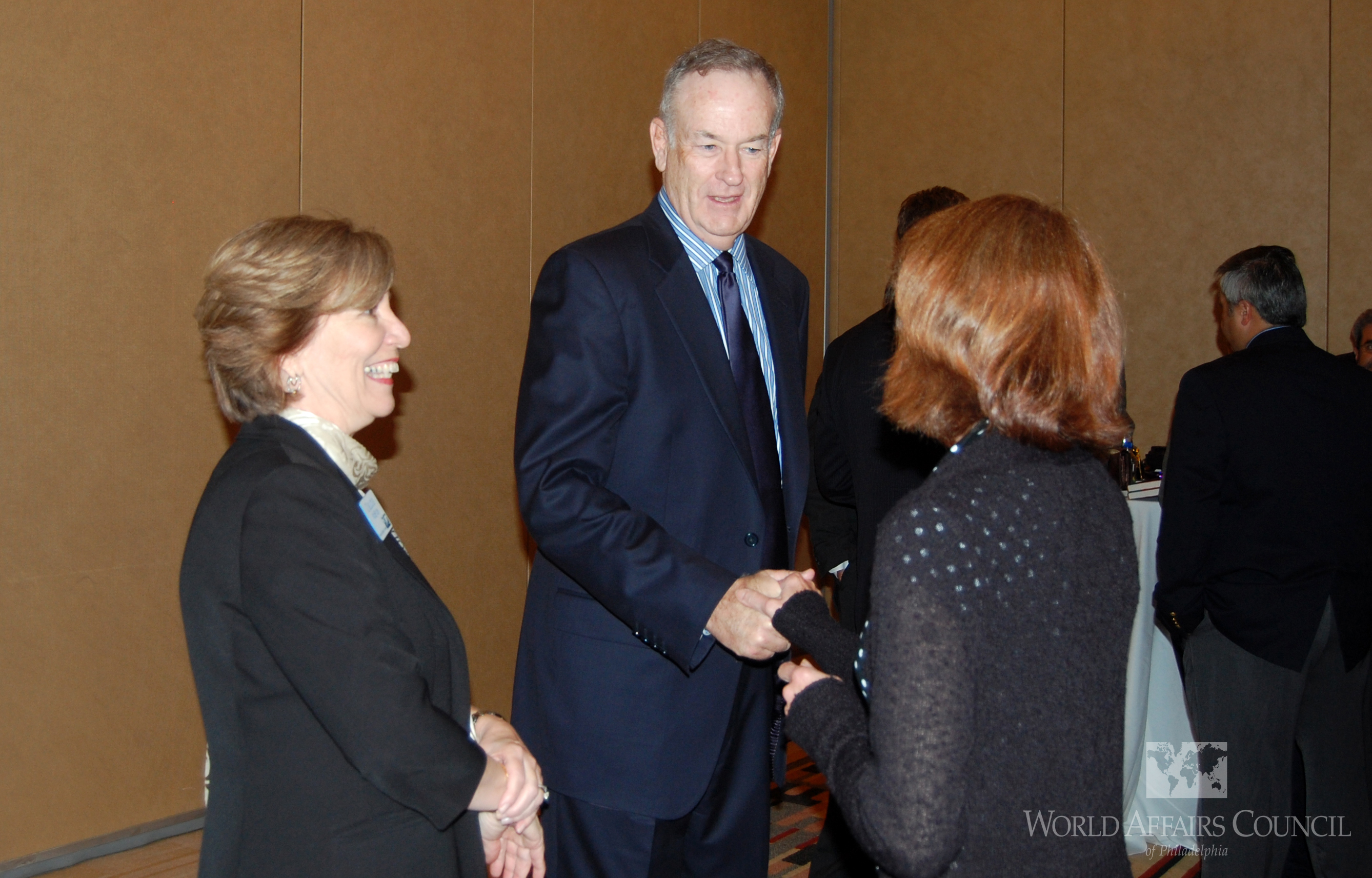 Bill O'Reilly at the World Affairs Council of Philadelphia, September 30, 2010